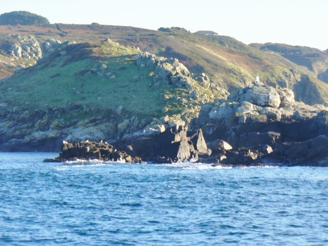 Rocky islet at the northern tip of Sark, in the Channel Islands